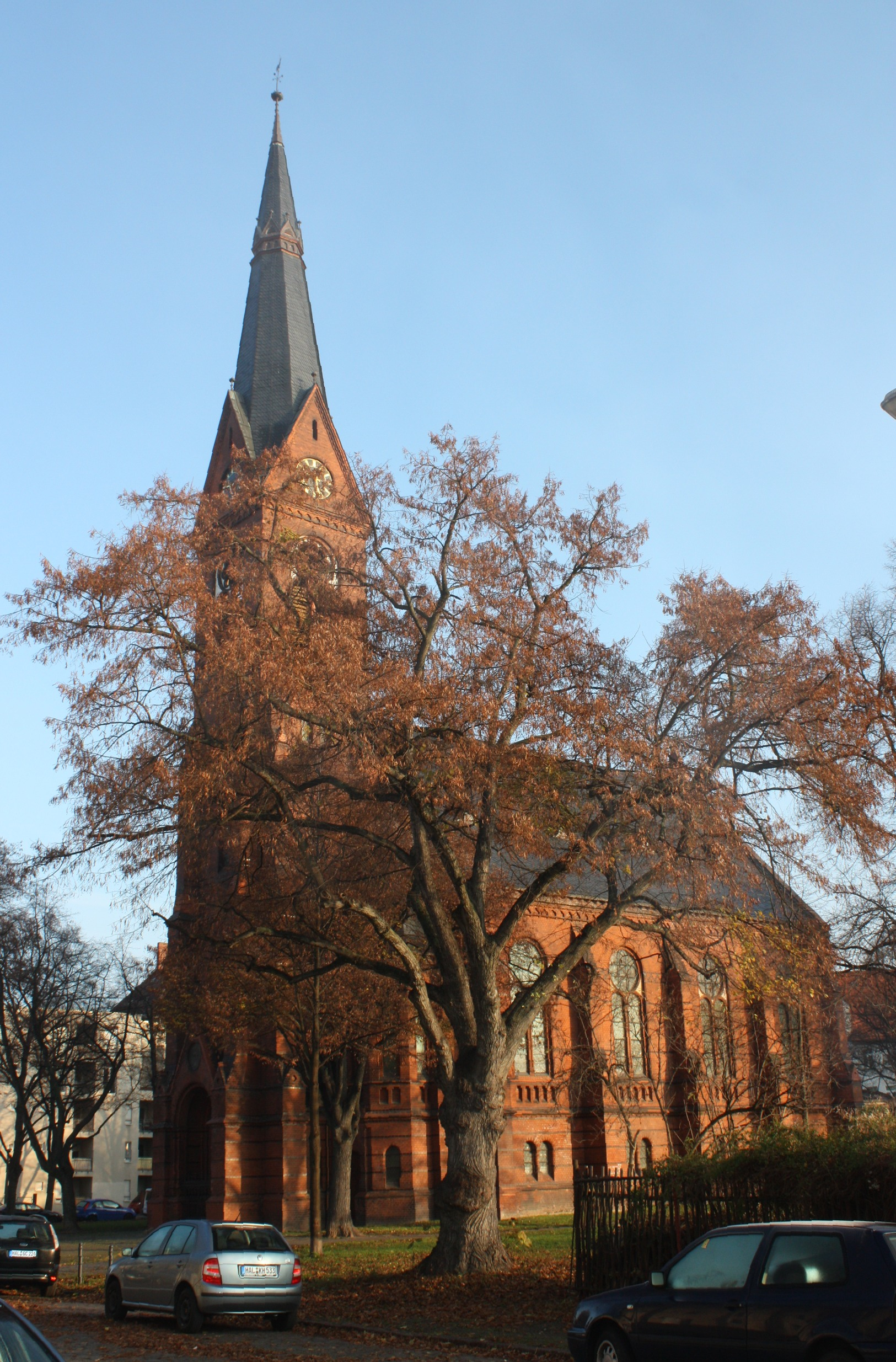 Halle (Saale), the church St. John